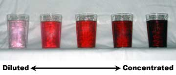 Very simple demonstration of qualitative differences in dye concentration (Dilution-concentration simple example)